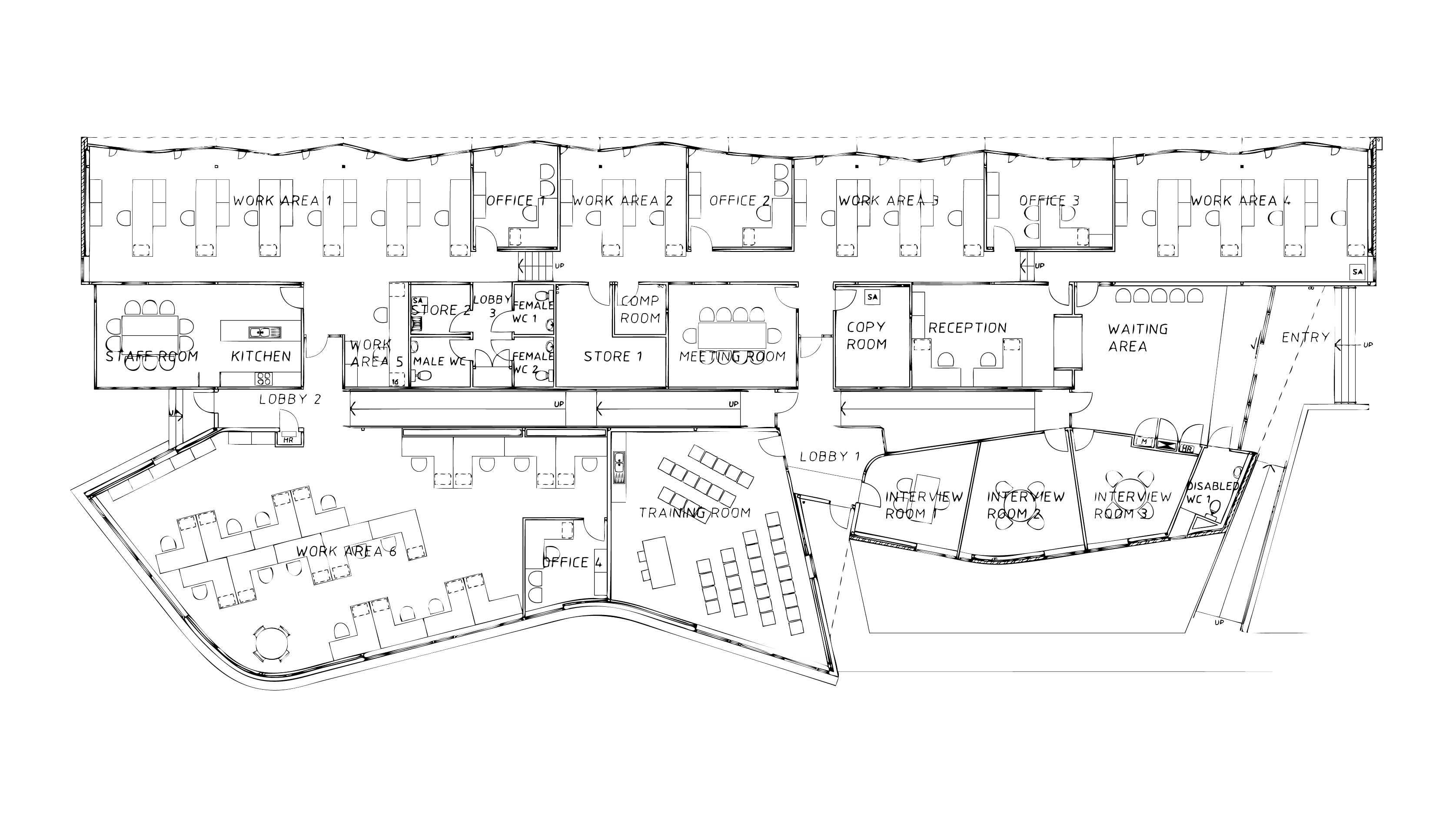 Plan View